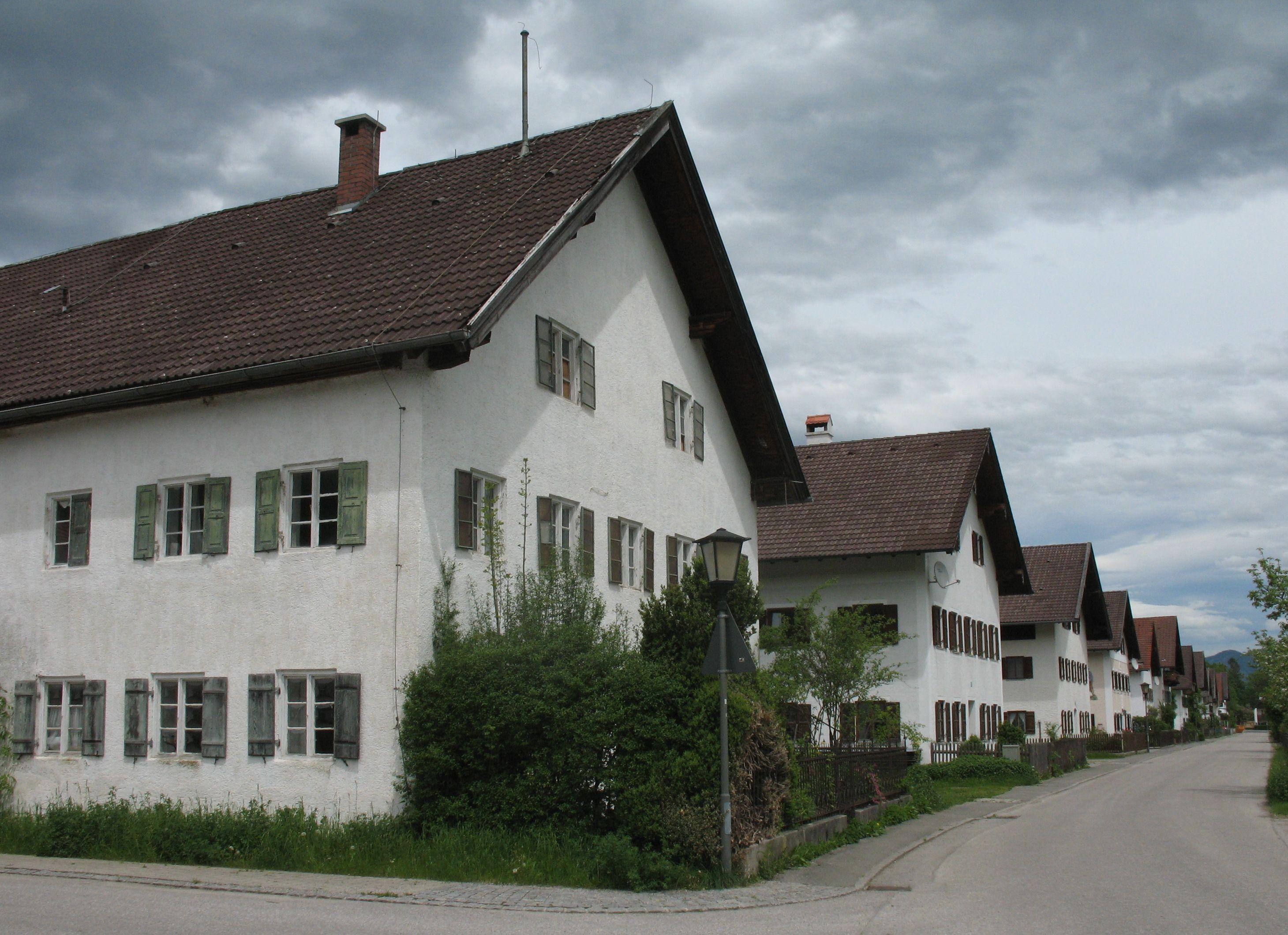 Farmhouses in Schlehdorf in Bavaria, Germany